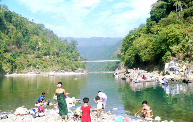 Khashia people in Jaflong, near Indian Border